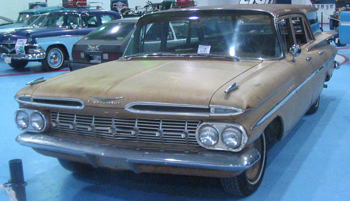 1959 Chevrolet Brookwood photographed in Laval, Quebec, Canada at the 2012 Laval Bike & Tattoo Show.